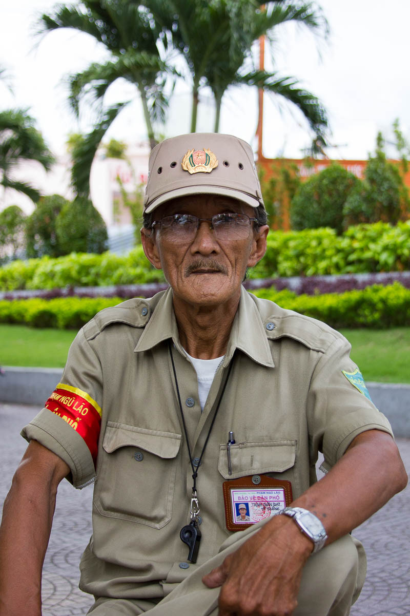 500px provided description: A very old soldier managing traffic agreed to pose for me. [#old ,#man ,#watch ,#vietnam ,#soldier ,#wrinkles ,#saigon ,#whistle]